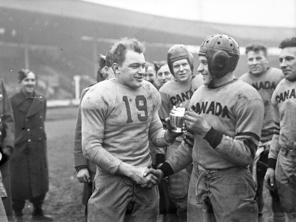 Frank Dombrowski (left) of the United States and Captain W. Drinkwater of Canada, rival captains of the teams playing in the Canada-United States football game at White City Stadium, London, England